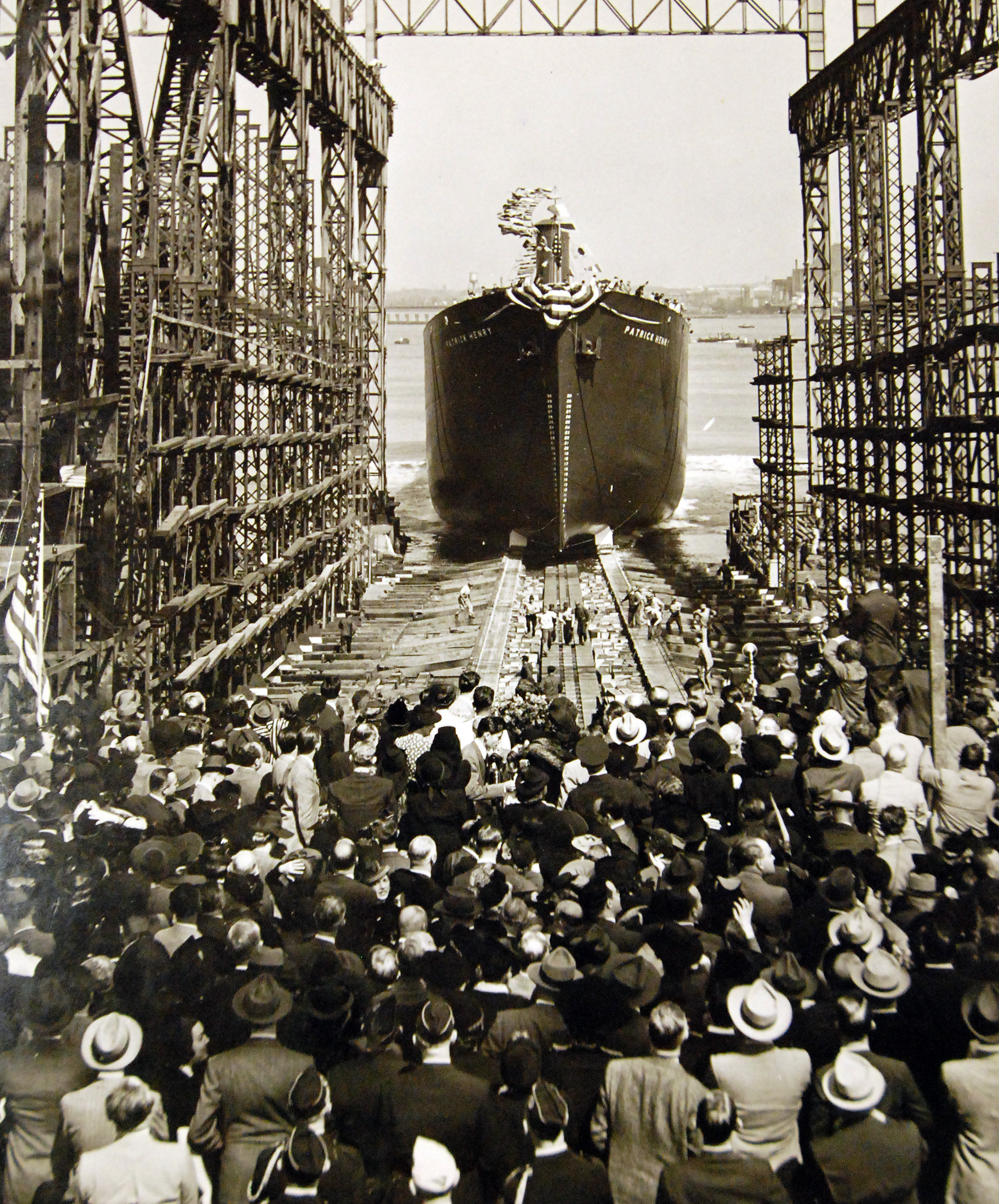 Lot-3452-6: Biography of a Liberty Ship. Less than five months from keel-laying to launching ceremony was the record set by SS Patrick Henry. This time is being reduced to sixty days in the construction of her sister ships of the Liberty Ship design. This standard design was selected by the Maritime Commission to meet the need for a ship that can be built in existing yards in minimum time with the additional purpose of conserving materials vitally needed for the war production effort. Prefabrication of sections in special plants, replacing of riveting wherever possible by welding and other new departures all contribute to the speed of construction and saving of material and dead weight in these ships which are already proving their worth in the War on the Axis. On 27 September 1941, SS Patrick Henry, the first U.S. Liberty ship, was launched at Baltimore, Maryland. Numerous other vessels were launched on that day, known as "Liberty Fleet Day." Surviving World War II, Patrick Henry was scrapped in 1960. U.S. Office of Emergency Management Photograph. Courtesy of the Library of Congress. (2015/05/06).